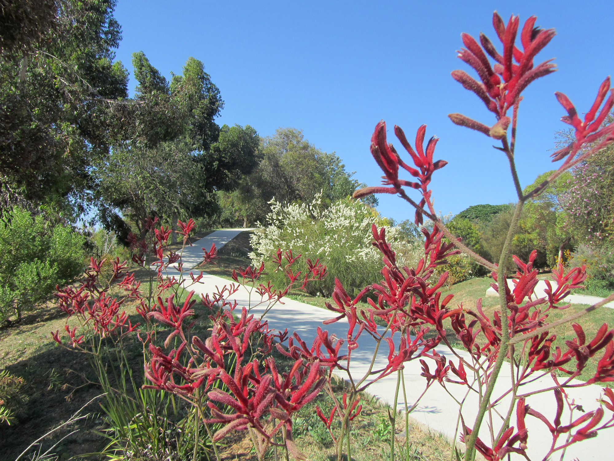 Botanical garden of Barcelona. Anigozanthos sp in the foreground.